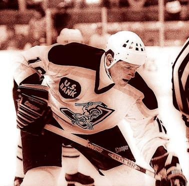 Trevor Jobe taking faceoff as a member of the Johnstown Chiefs